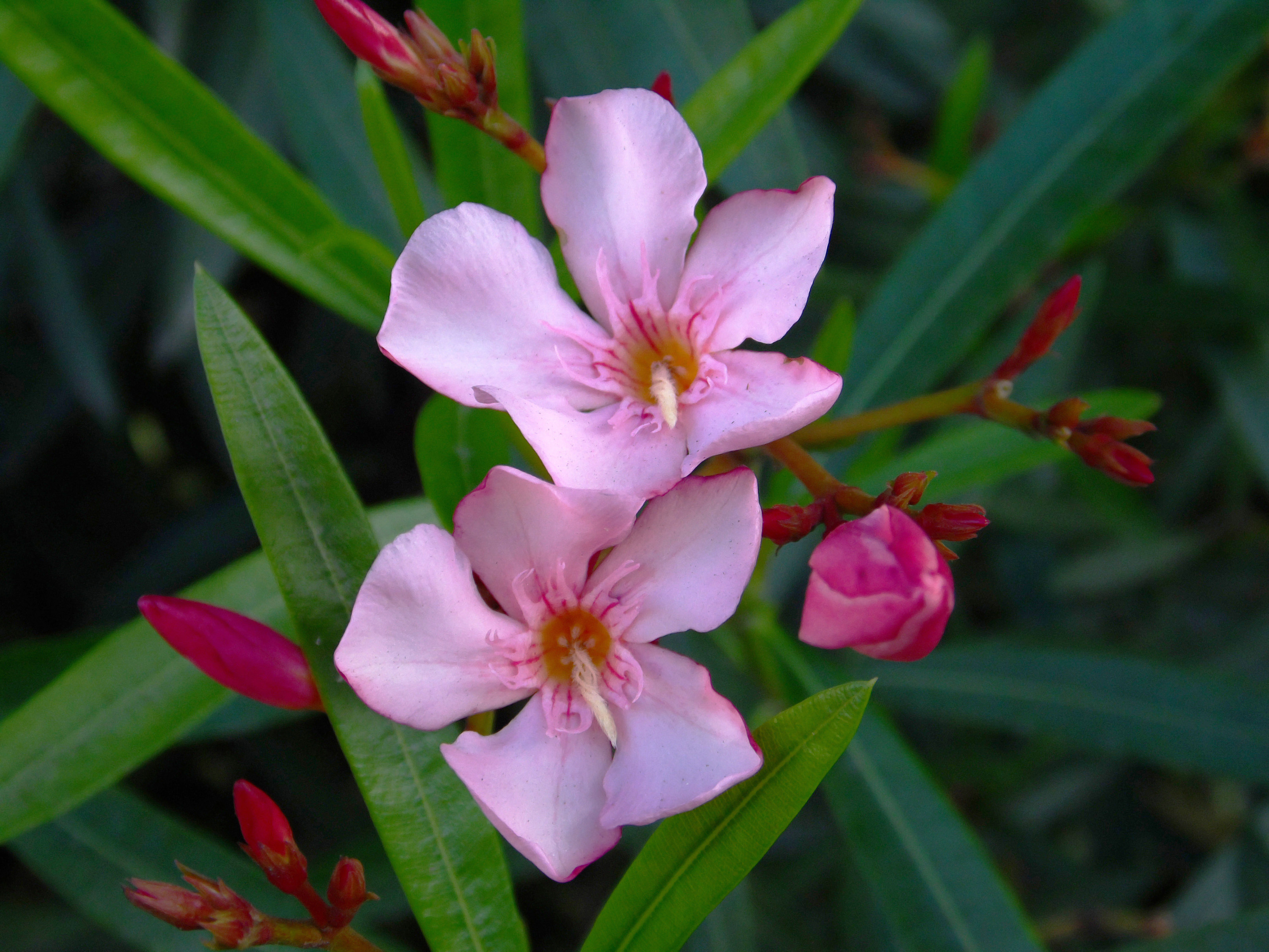 Flowers and leaves of Nerium oleander.